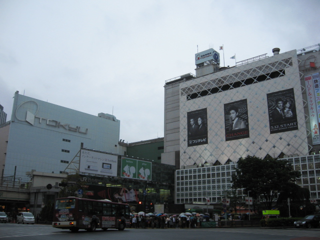 Tokyu Depertment store Shibuya-Toyoko Store East-billding and West-billding.